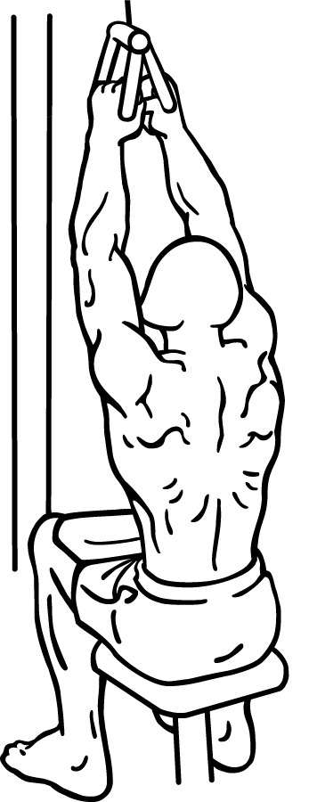 an exercise of upper back